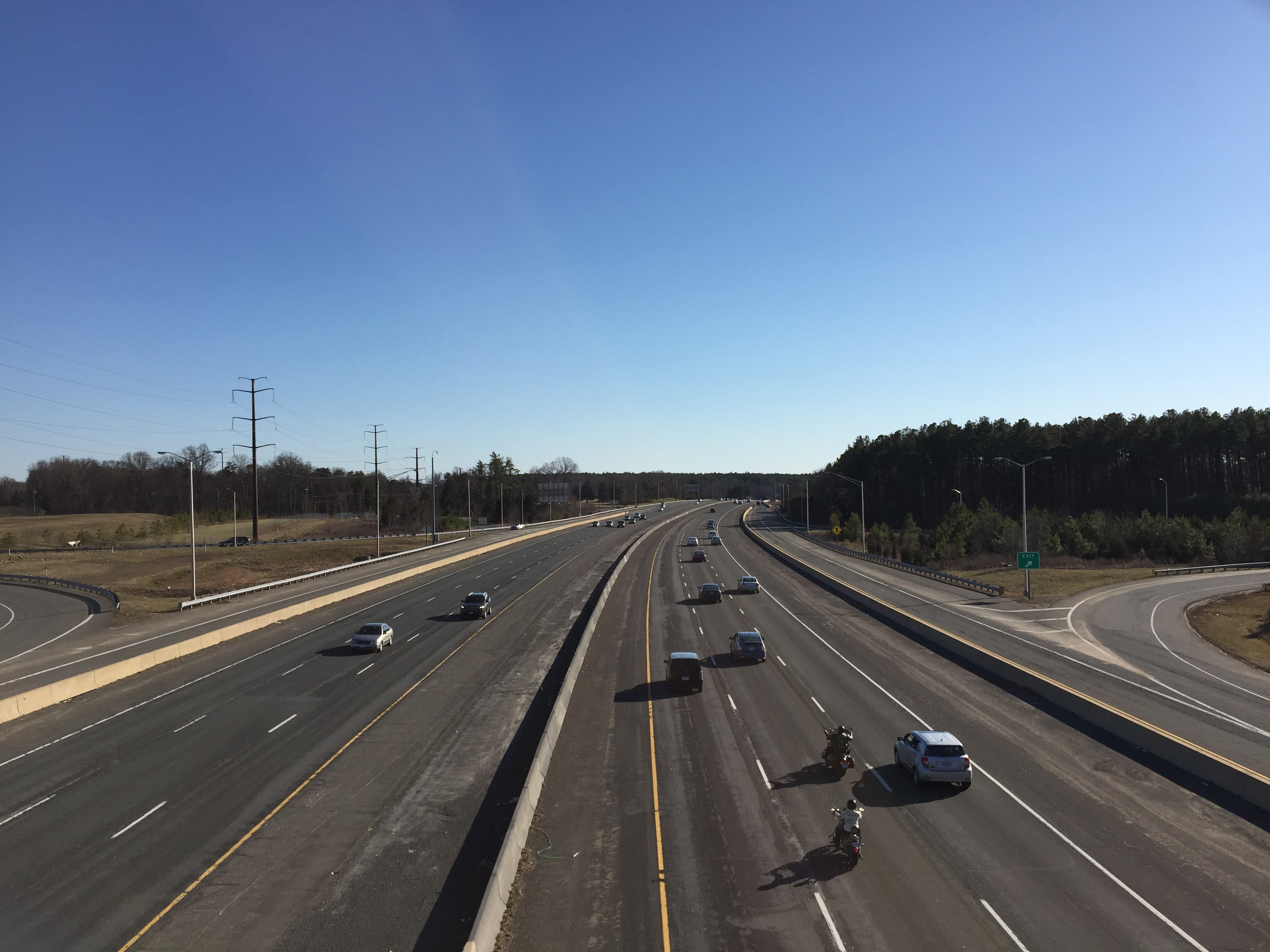 View south along Virginia State Route 28 (Sully Road) from Air and Space Museum Parkway along the border of Chantilly and Oak Hill in Fairfax County, Virginia